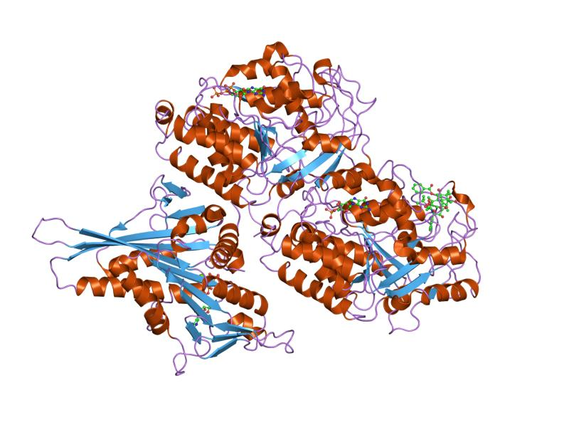 Cartoon representation of the molecular structure of protein registered with 1ia0 code.